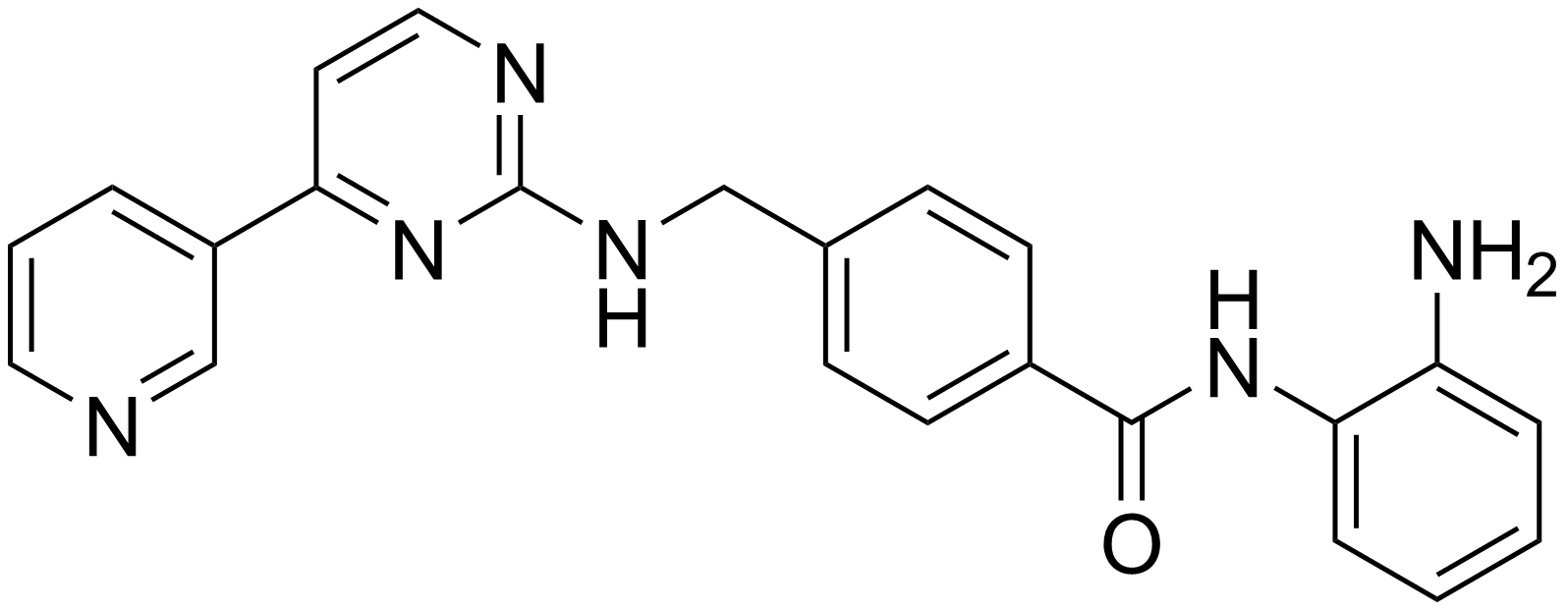 chemical structure of mocetinostat